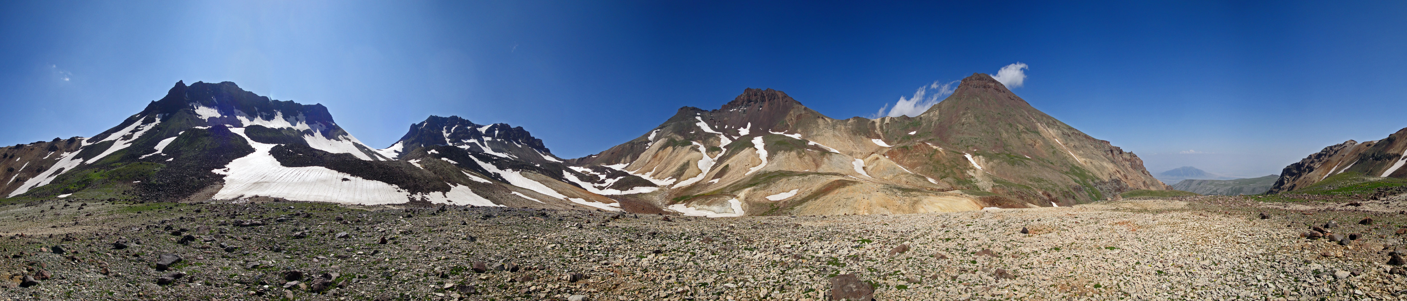 Peaks of mount Aragats